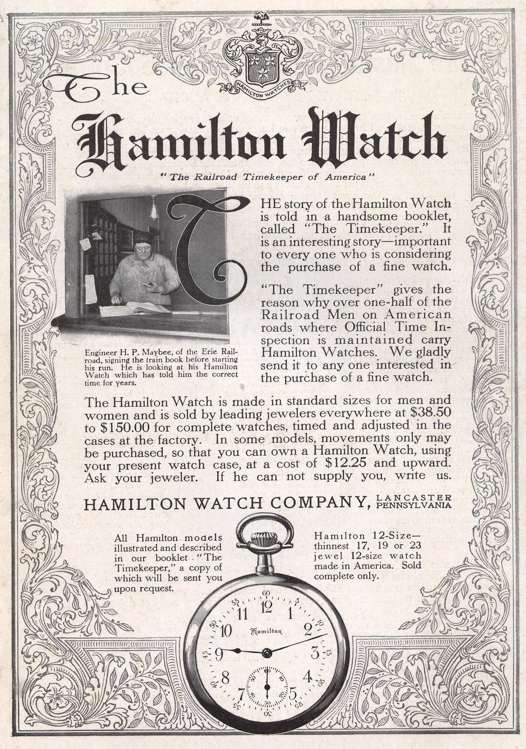 "Hamilton" watch advertisement, 1913